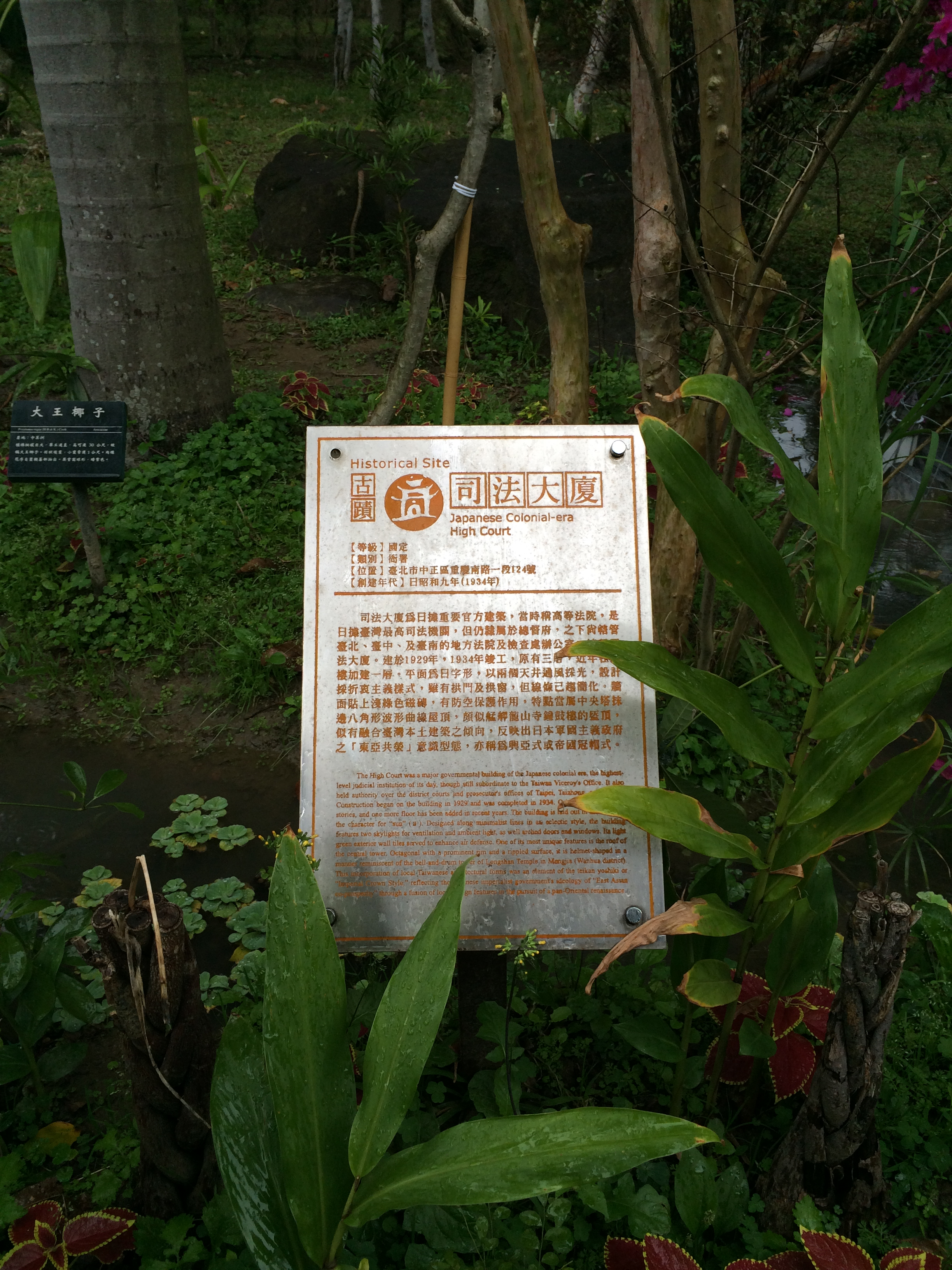 Brief Introduction of the Judicial Office Building : Japanese Coionial-era High Court.